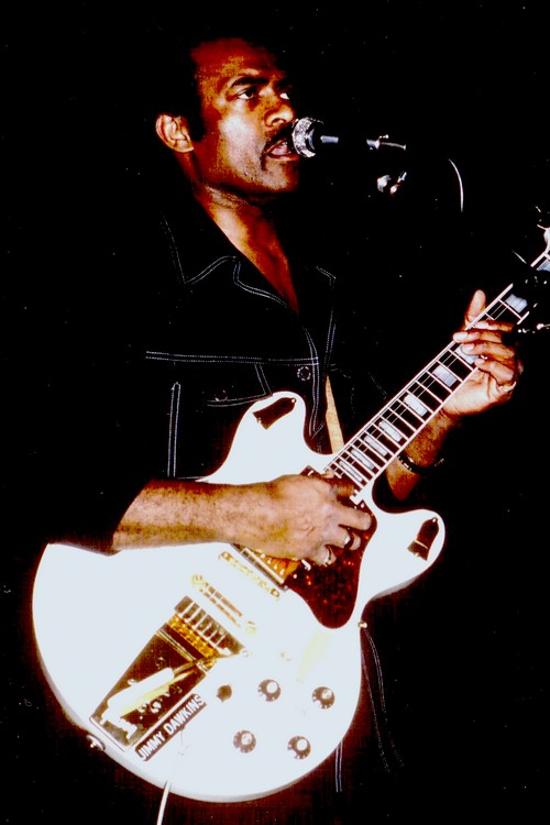 Blues guitarist Jimmy Dawkins in Paris, France.